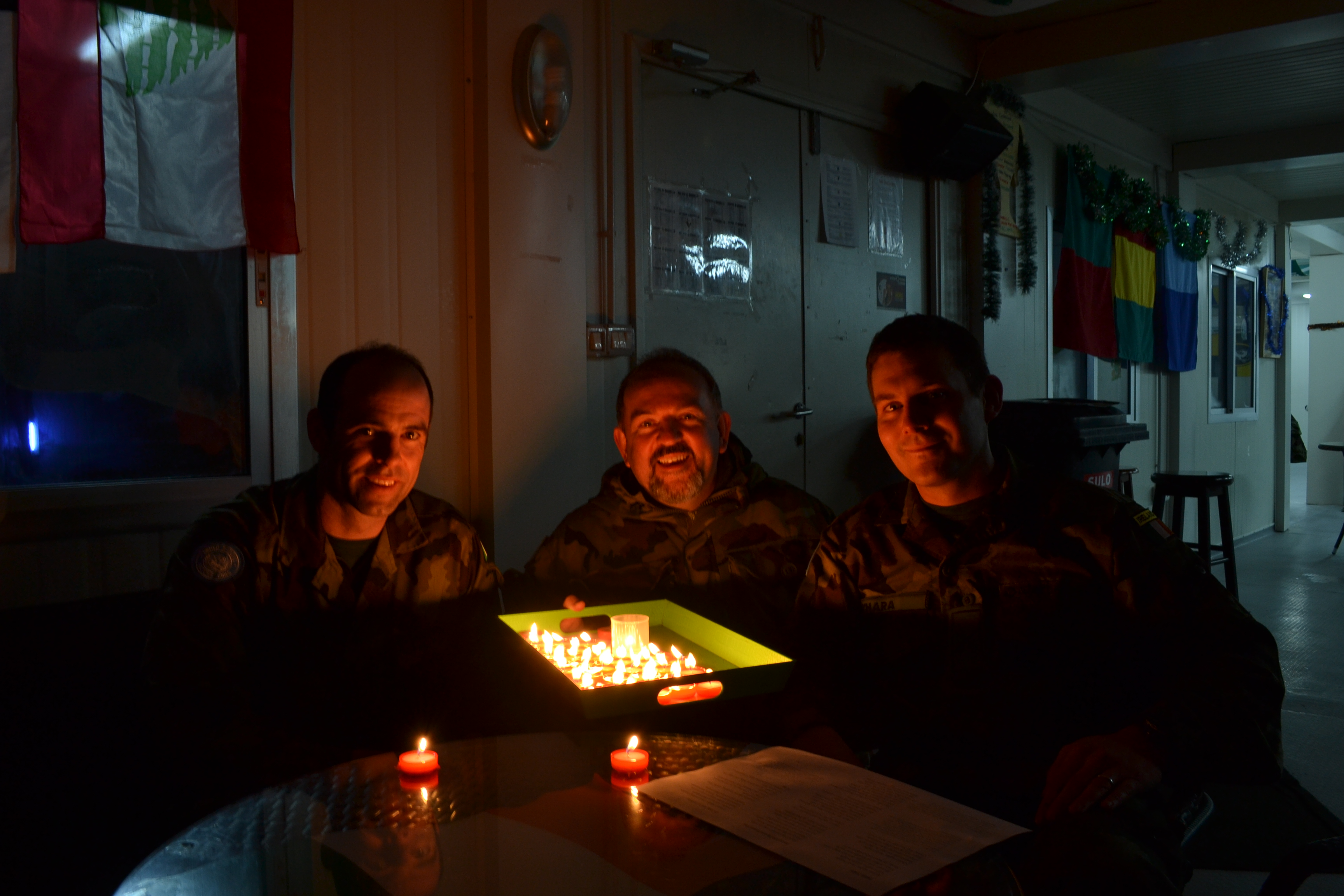 Carol service as seen in Lebanon